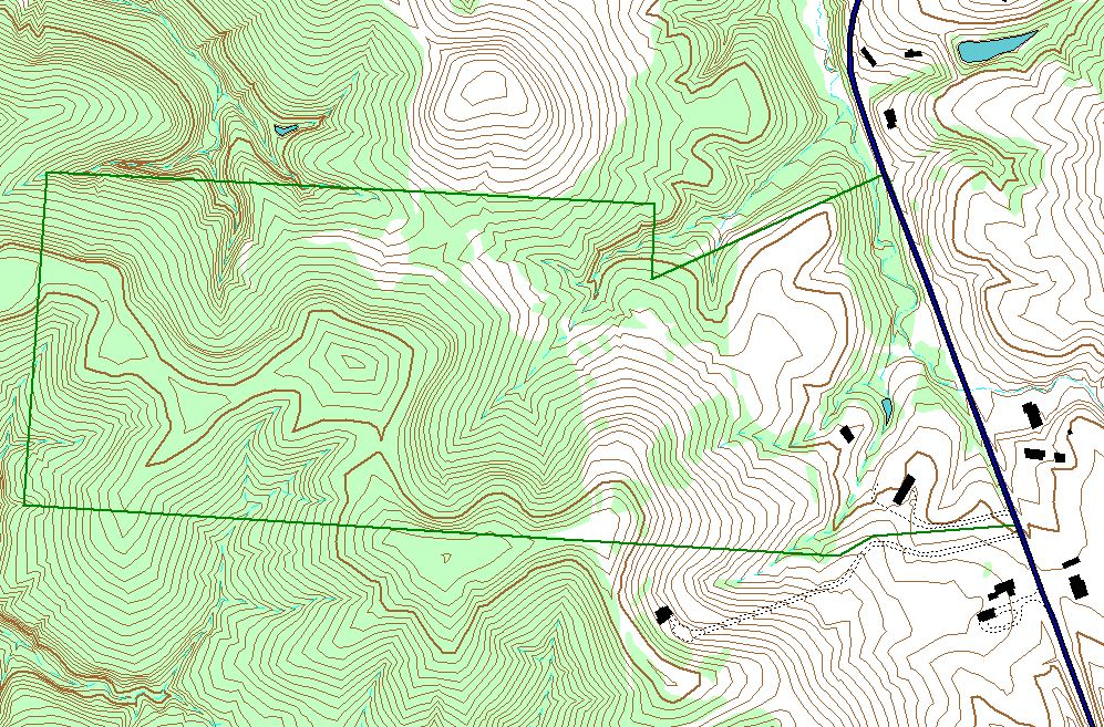 Example of layers used in GIS work. This map is of an Athens County, Ohio property, and was made using ArcView GIS 3.3, by John Knouse